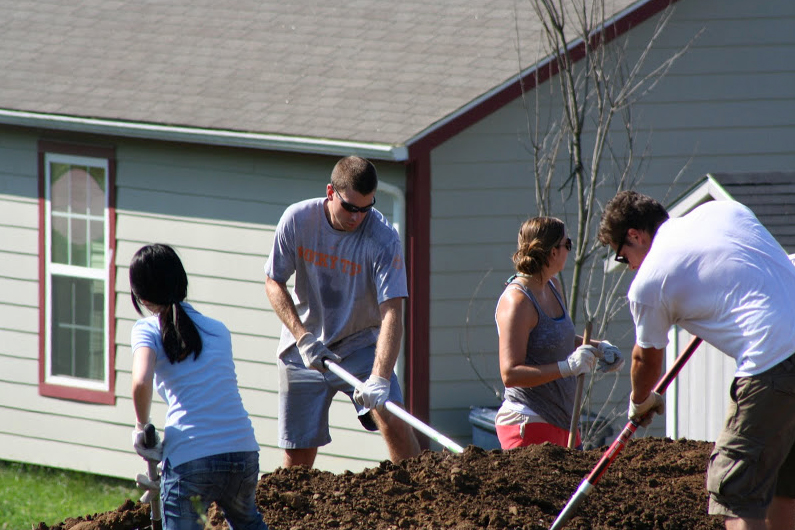 Community service with Owen MBA students